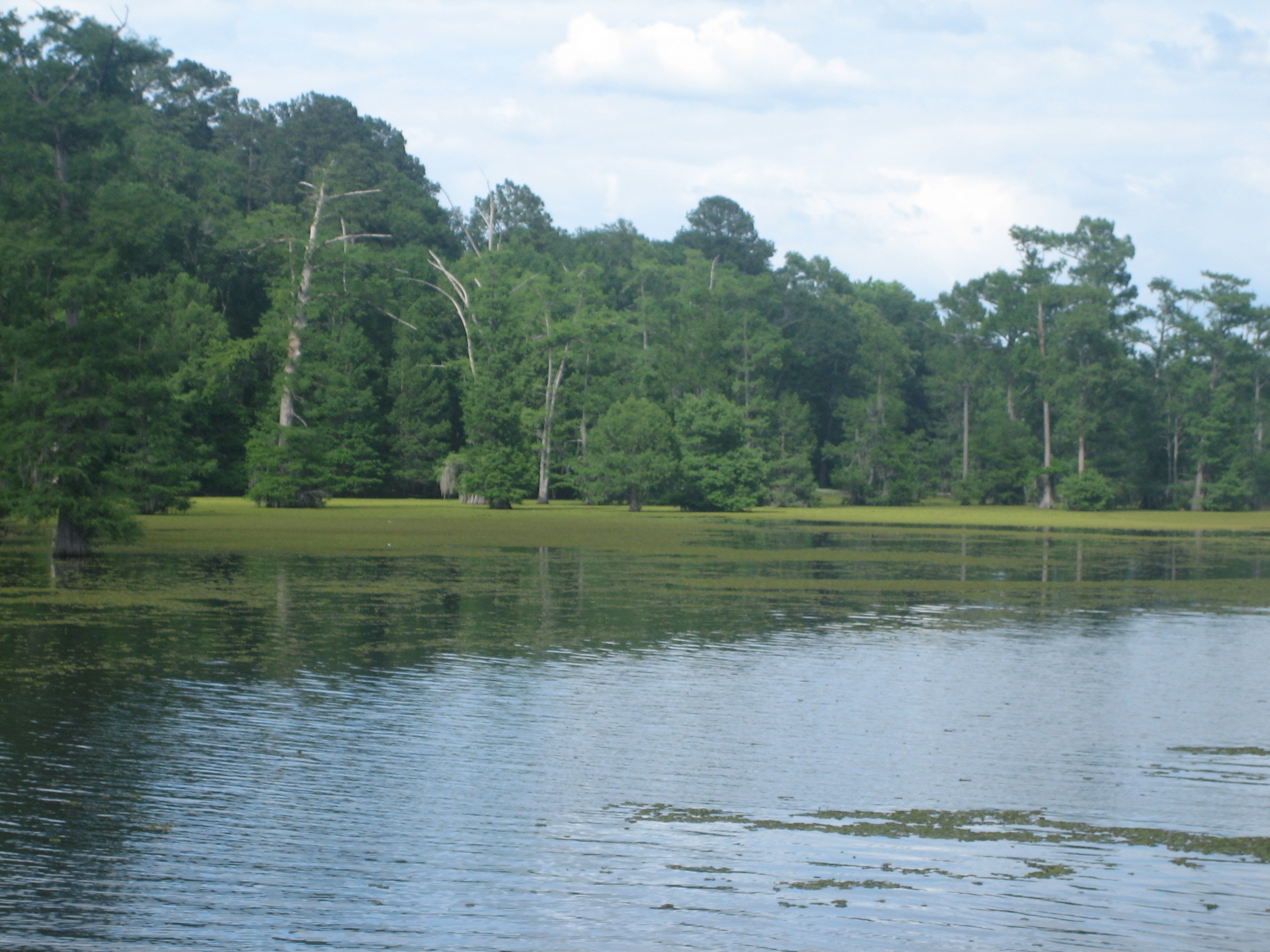 I took photo on May 21, 2009.Billy Hathorn (talk) 16:40, 29 May 2009 (UTC)